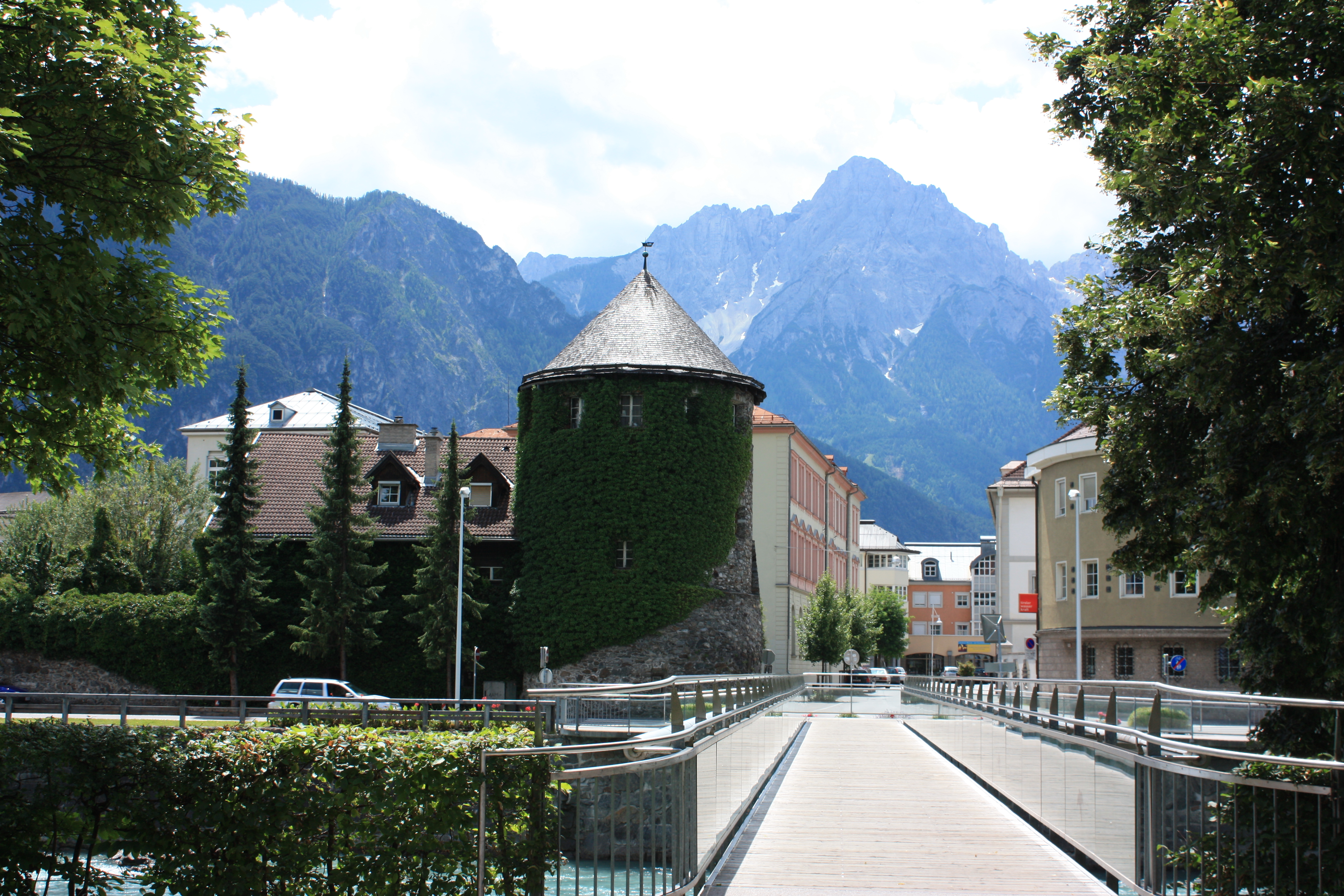 Iselsteg Locality:Iselsteg Community:Lienz